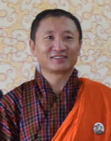 Deputy Secretary of State John J. Sullivan poses for a photo with Foreign Minister Tandi Dorji, U.S. Ambassador to India Ken Juster, and Major General Waddell, at the Ministry of Foreign Affairs in Bhutan, on August 12, 2019. [State Department photo by Nicole Thiher/ Public Domain]